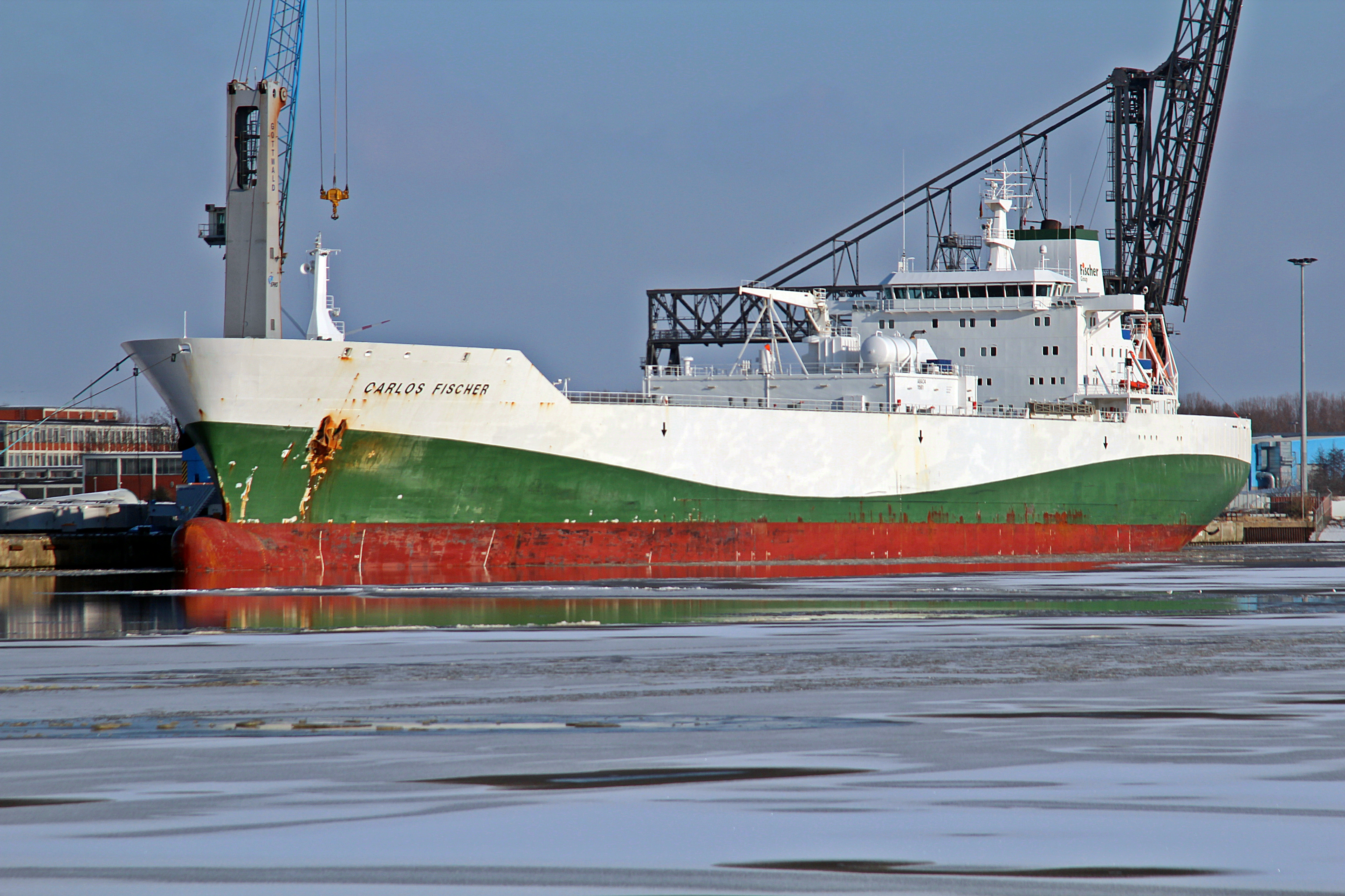 Fruit juice carrier Carlos Fischer in Port of Emden